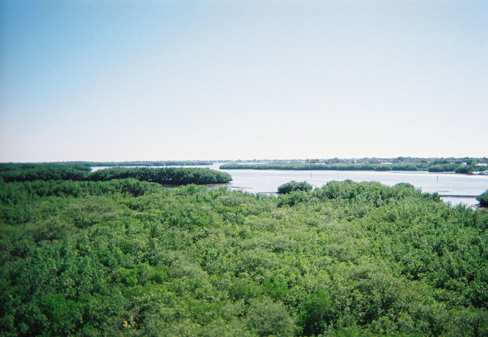 View from the top of an observation tower in the Weeden Island Preserve, in St. Petersburg, Florida